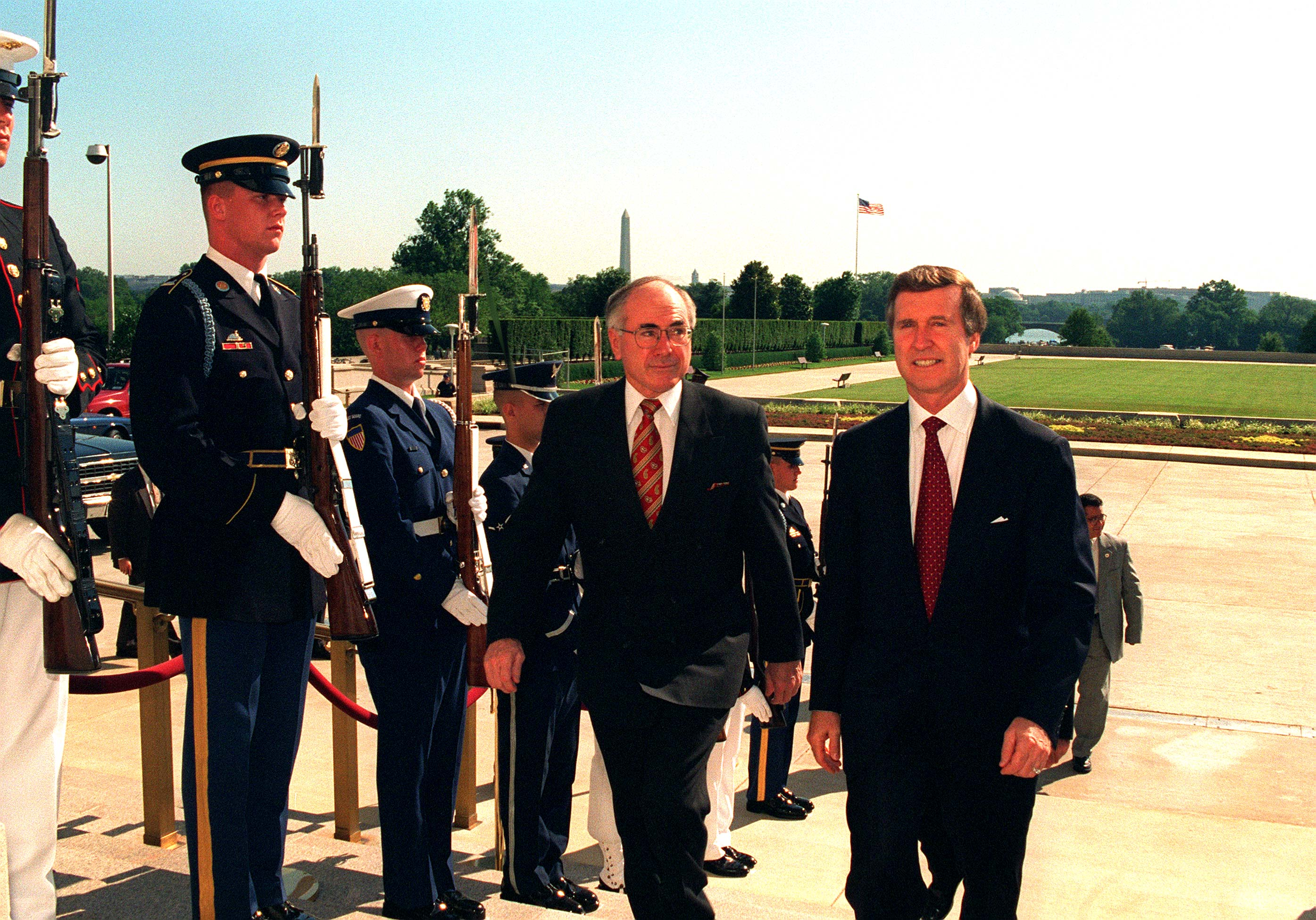 Australian Prime Minister John Howard (left) is escorted by US Secretary of Defense William Cohen (right), through an armed forces honor cordon into the Pentagon.